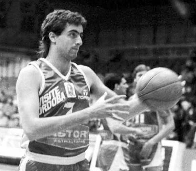 Argentine basketball player, Carlos Cerutti (1969-1990) during his tenure on Atenas.